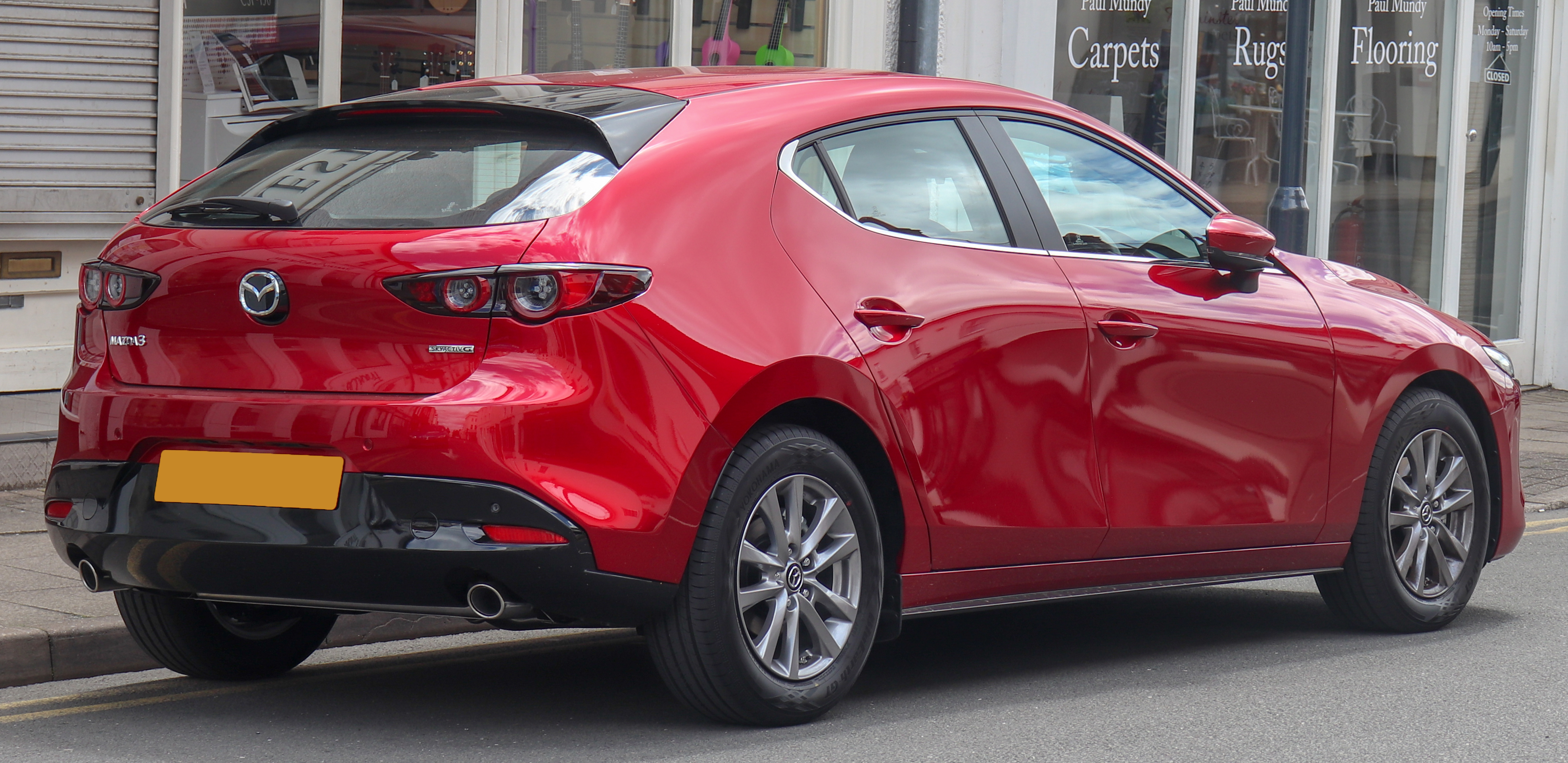 2019 Mazda3 SE-L 2.0 Rear Taken in Leamington Spa